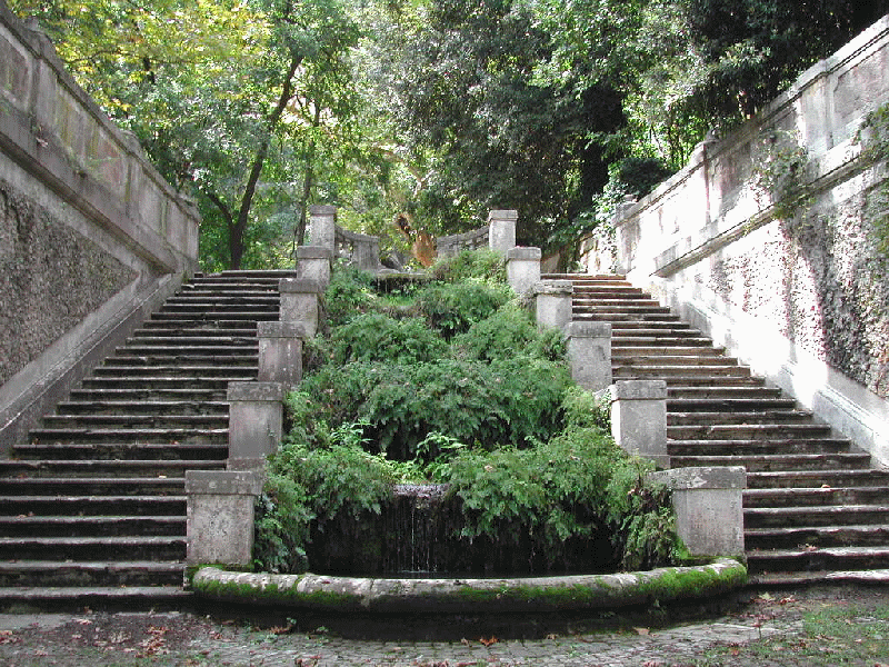 A staircase with a cascade at the Orto Botanico dell'Università di Roma "La Sapienza" in Rome, Italy.